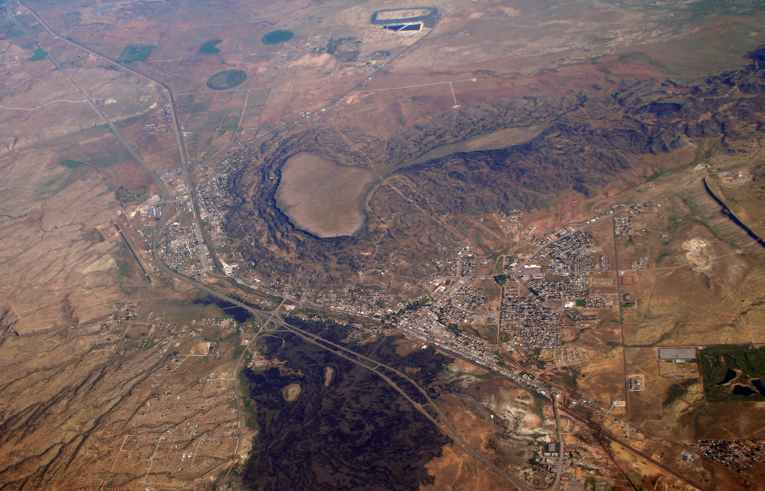 Grants, New Mexico, just west of Mt. Taylor. Adjoins Milan NM to the west. Mesa above is Black Mesa and West Grants Ridge, topographic map